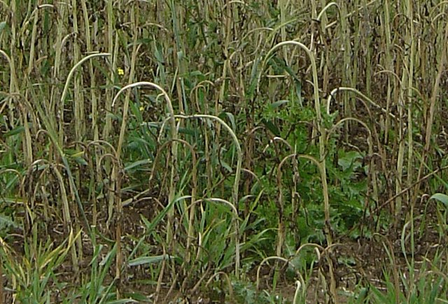 Wilting crop detail. A close up out of 882140 to help identification.